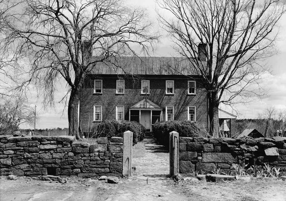 Green Hill Plantation & Main House, State Route 728, Long Island vicinity (Campbell County, Virginia) cropped This file comes from the Historic American Buildings Survey (HABS), Historic American Engineering Record (HAER) or Historic American Landscapes Survey (HALS). These are programs of the National Park Service established for the purpose of documenting historic places. Records consist of measured drawings, archival photographs, and written reports. When reusing please credit: Library of Congress, Prints & Photographs Division, VA,16-LONI.V,1-3 This tag does not indicate the copyright status of the attached work. A normal copyright tag is still required. See Commons:Licensing for more information. This work is in the public domain in the United States because it is a work prepared by an officer or employee of the United States Government as part of that person’s official duties under the terms of Title 17, Chapter 1, Section 105 of the US Code. See Copyright. Note: This only applies to original works of the Federal Government and not to the work of any individual U.S. state, territory, commonwealth, county, municipality, or any other subdivision. This template also does not apply to postage stamp designs published by the United States Postal Service since 1978. (See § 313.6(C)(1) of Compendium of U.S. Copyright Office Practices). It also does not apply to certain US coins; see The US Mint Terms of Use. This file has been identified as being free of known restrictions under copyright law, including all related and neighboring rights.